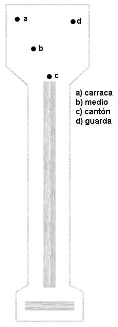 A graphic to explain the setup for Arabar boloa